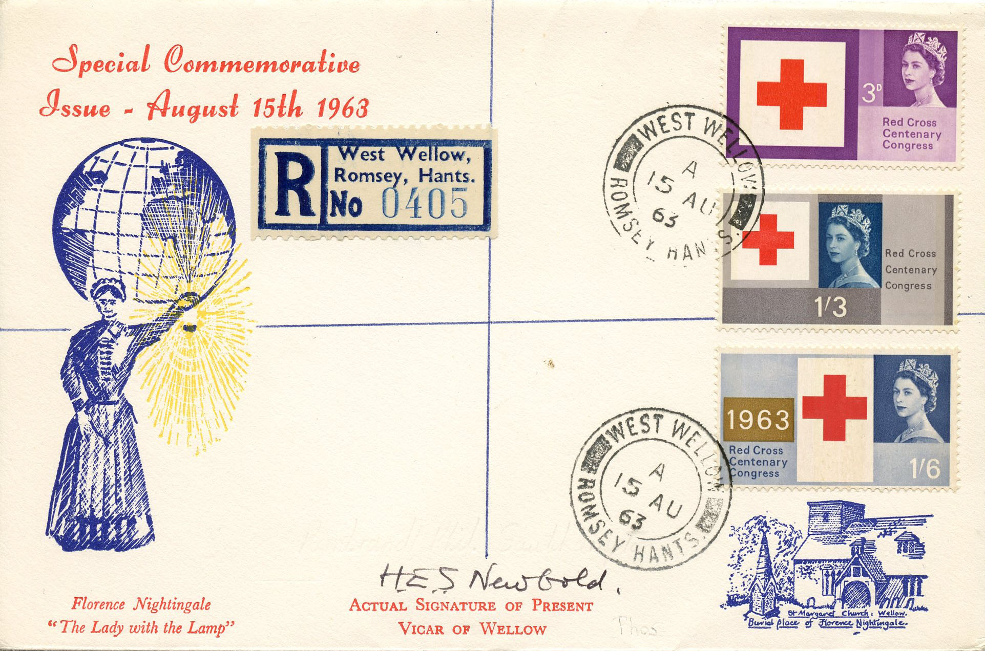 first day cover dated 15 August 1963 Celebrating the Centenary of the Red Cross, depicting Florence Nightingale and postmarked at the place she was buried